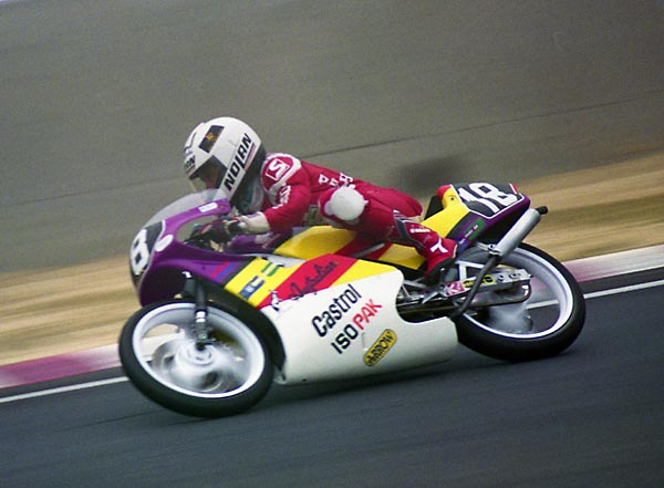 Taru Rinne, at Japanse Grand Prix 1990